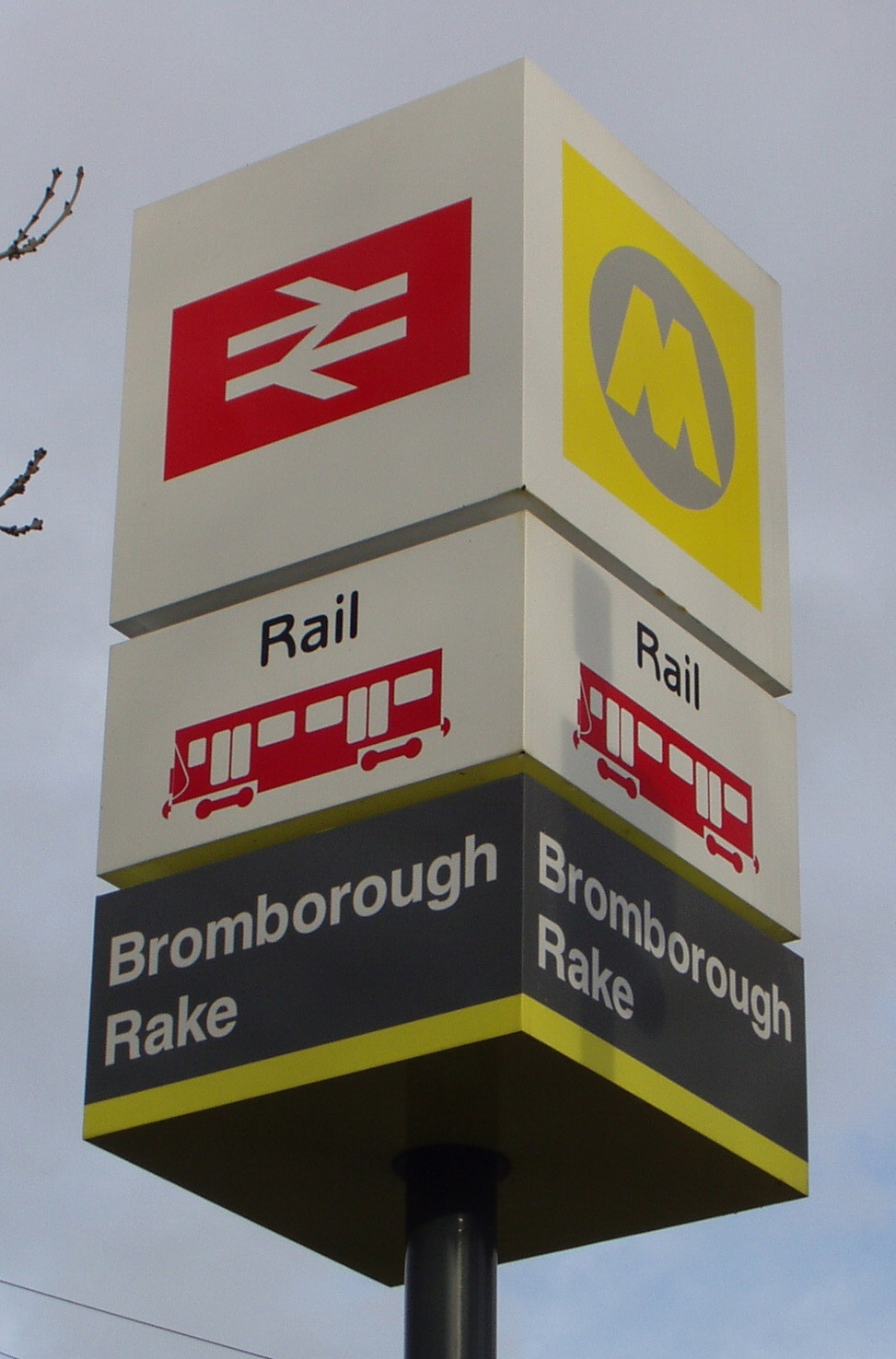 Bromborough Rake railway station sign at the station entrance